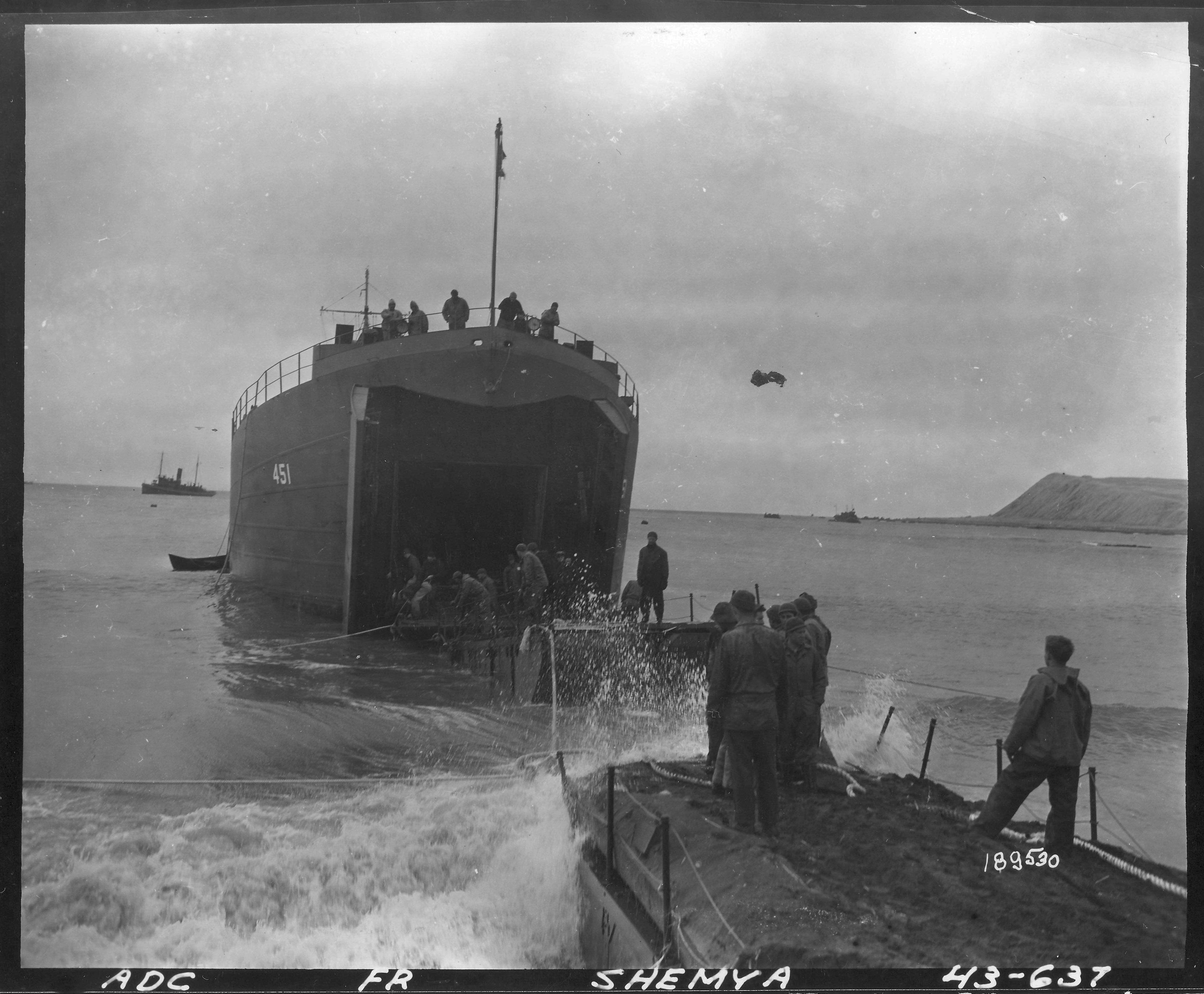 Army 18th Engineers build a dirt filled barge ramp to enable off loading of their equipment from USS LST-451 while the ship is beached at the Aleutian Island of Shemya Alaska, 1 June 1943. American Army troops landed on Shemya during the Attu occupation. US Army Signal Corps photos # SC 189531 and SC 189530 now in the collections of the US National Archives.